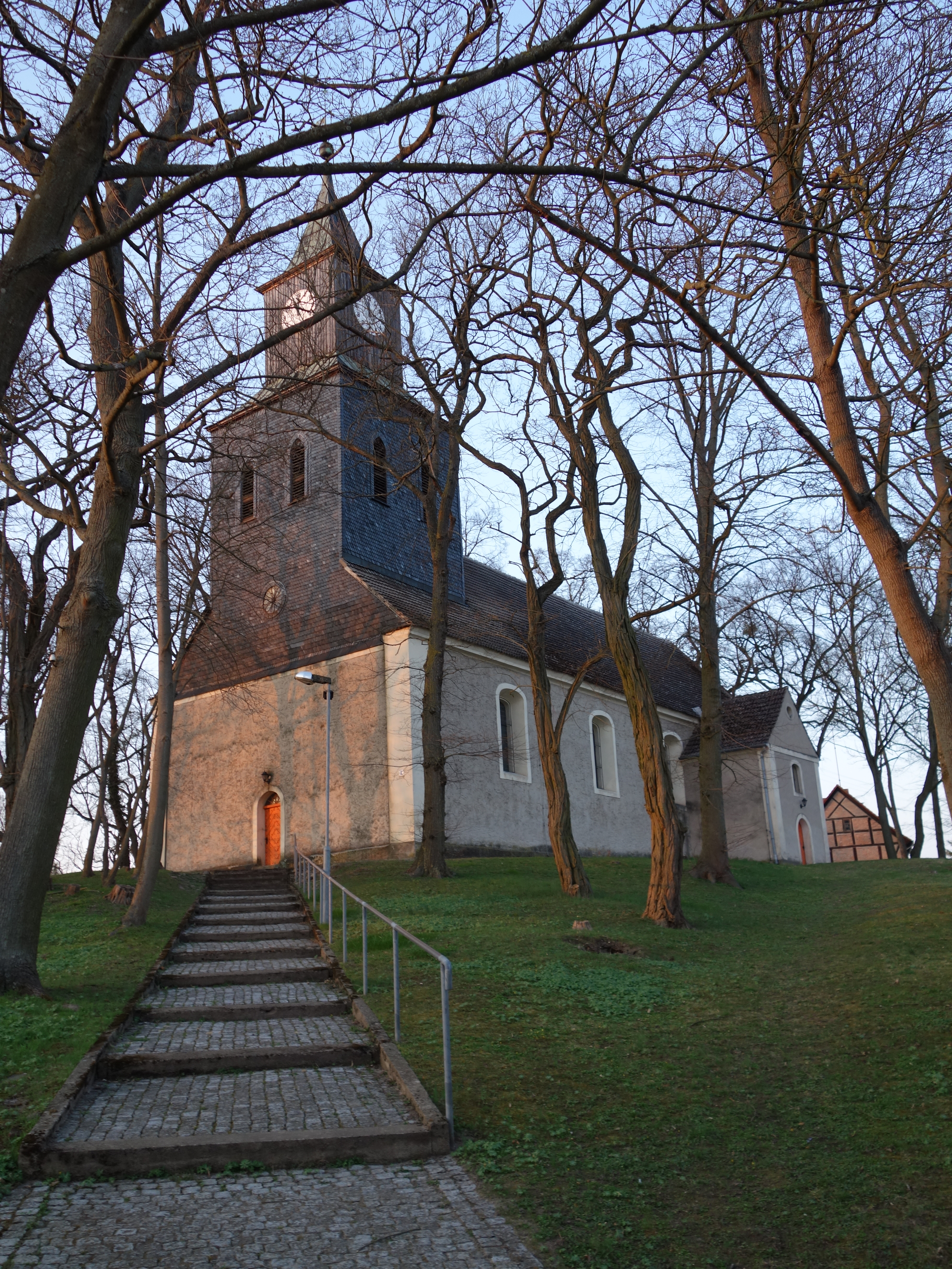 South-western view of the church in Greiffenberg , Angermünde municipality , Uckermark district, Brandenburg state, Germany